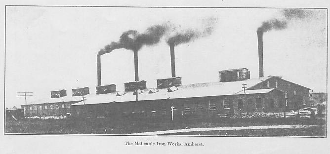 Malleable Iron Works